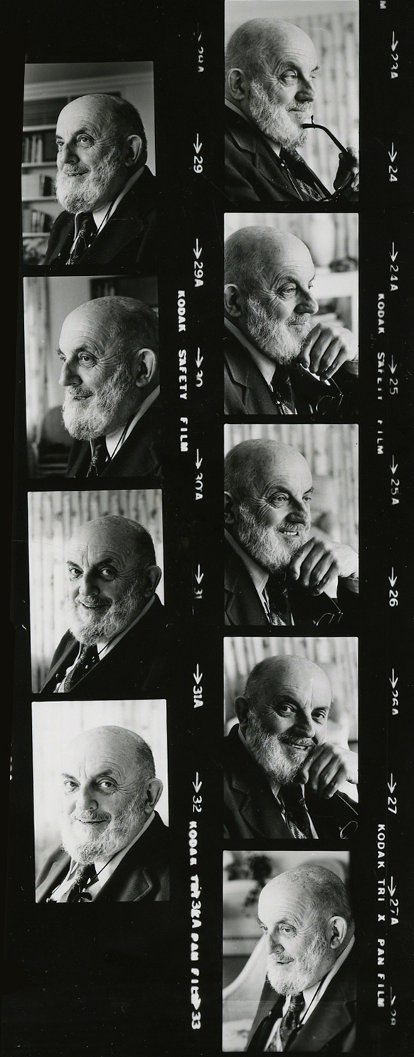 The photo contact sheet, identified as A2946 by the White House Photographic Office (WHPO), is housed at the Gerald R. Ford Presidential Library, a branch of the National Archives and Records Administration (NARA). This file is a 200 dpi photo contact sheet having images from roll of film A2946 of the August 9, 1974 - January 20, 1977 Gerald R. Ford White House Photographic Office Series A0001-A9999 and B0001-B2886 photographs. The date on the photo contact sheet is the date the roll of film was processed, not necessarily the date the photographs were taken. See table below for additional details.